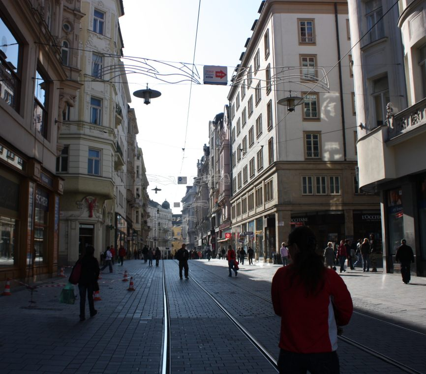 Brno, Masarykova street